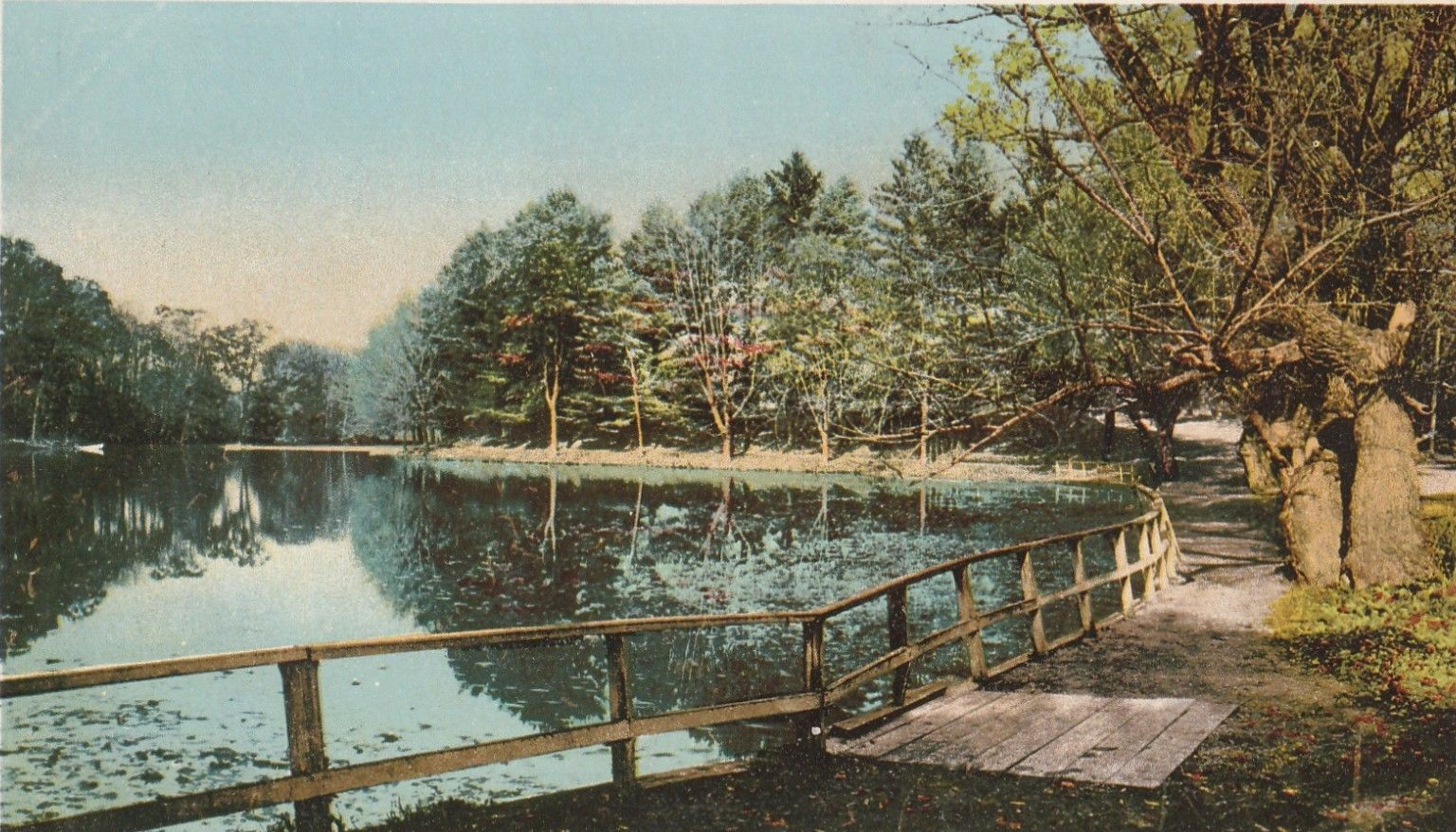 "7614. The Lake, Vassar College." Vassar Lake on the campus of Vassar College in the town of Poughkeepsie, New York; postcard does not specify the lake's name but it cannot be the college's other lake, Sunset Lake, since that lake was not created until 1912.